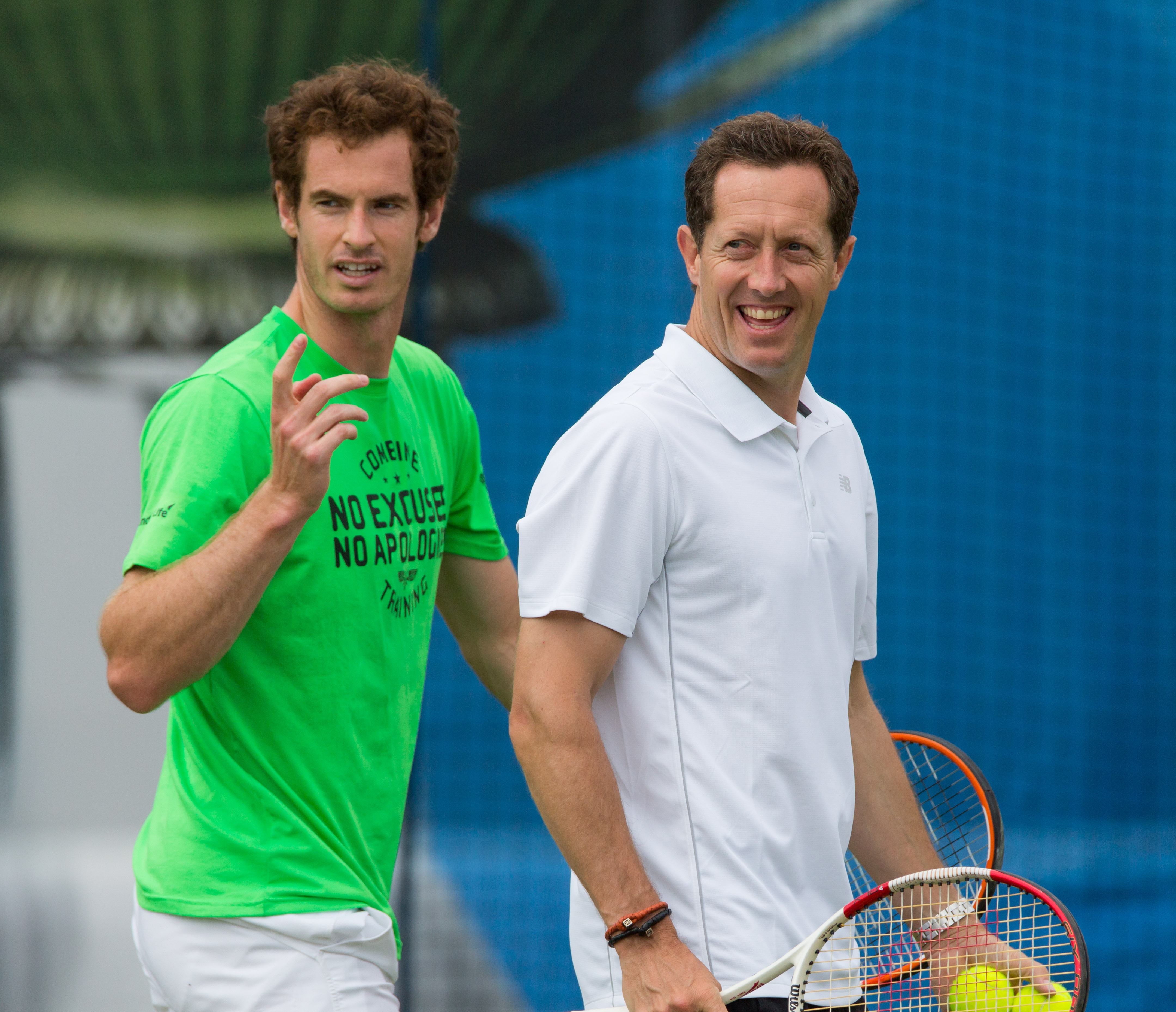 Andy Murray and Jonas Björkman during practice at the Queens Club Aegon Championships in London, England.